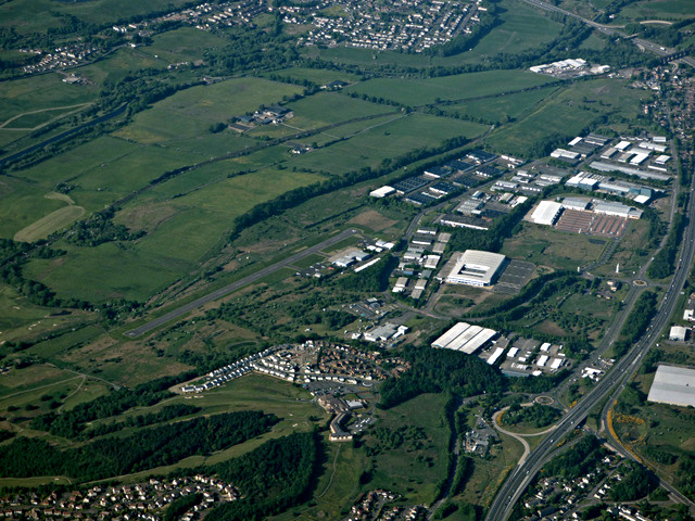 Cumbernauld Airport from the air